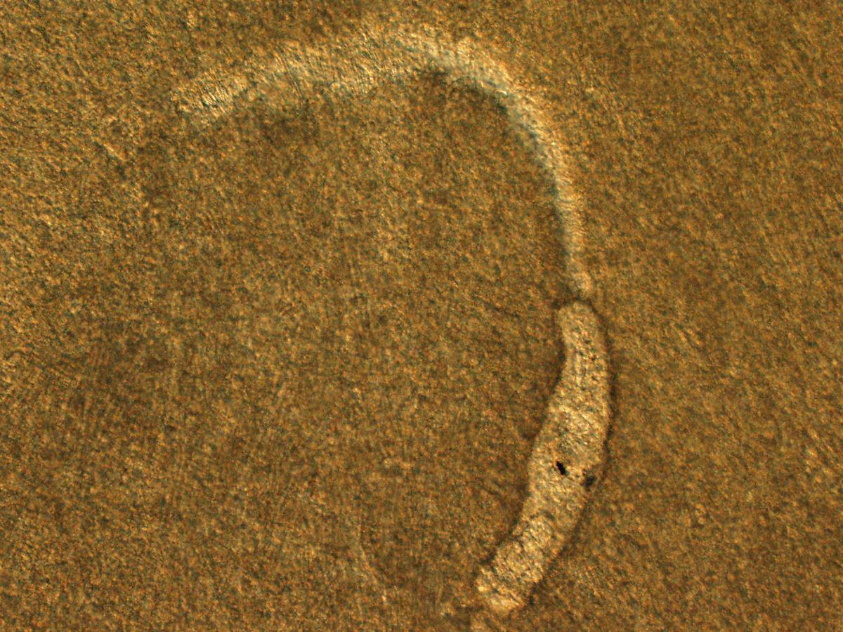 A schistosomulum of neurotropic schistosome Trichobilharzia regenti migrating through a spinal cord of an experimentally infected mouse (5 days after infection).